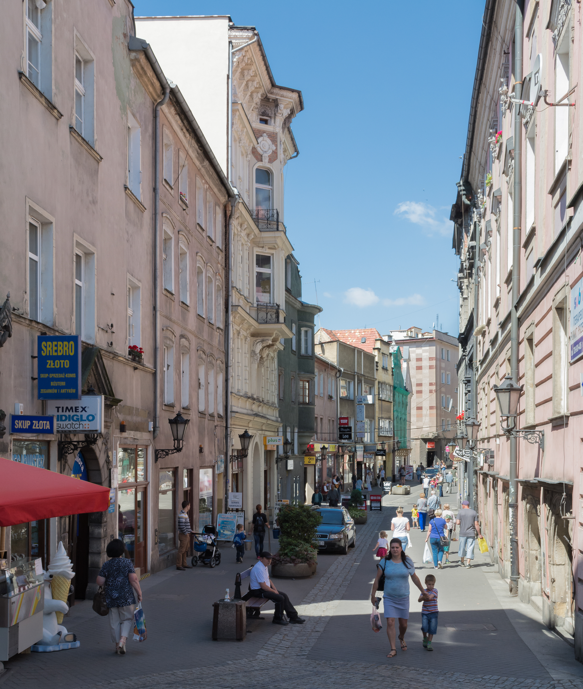 Armii Krajowej Street in Kłodzko